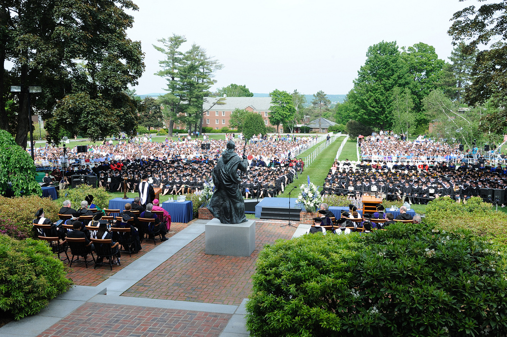 Saint Anselm College graduation